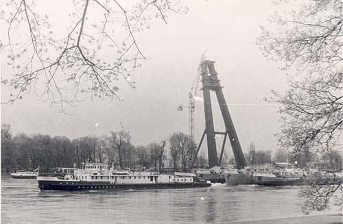 SNP bridge construction